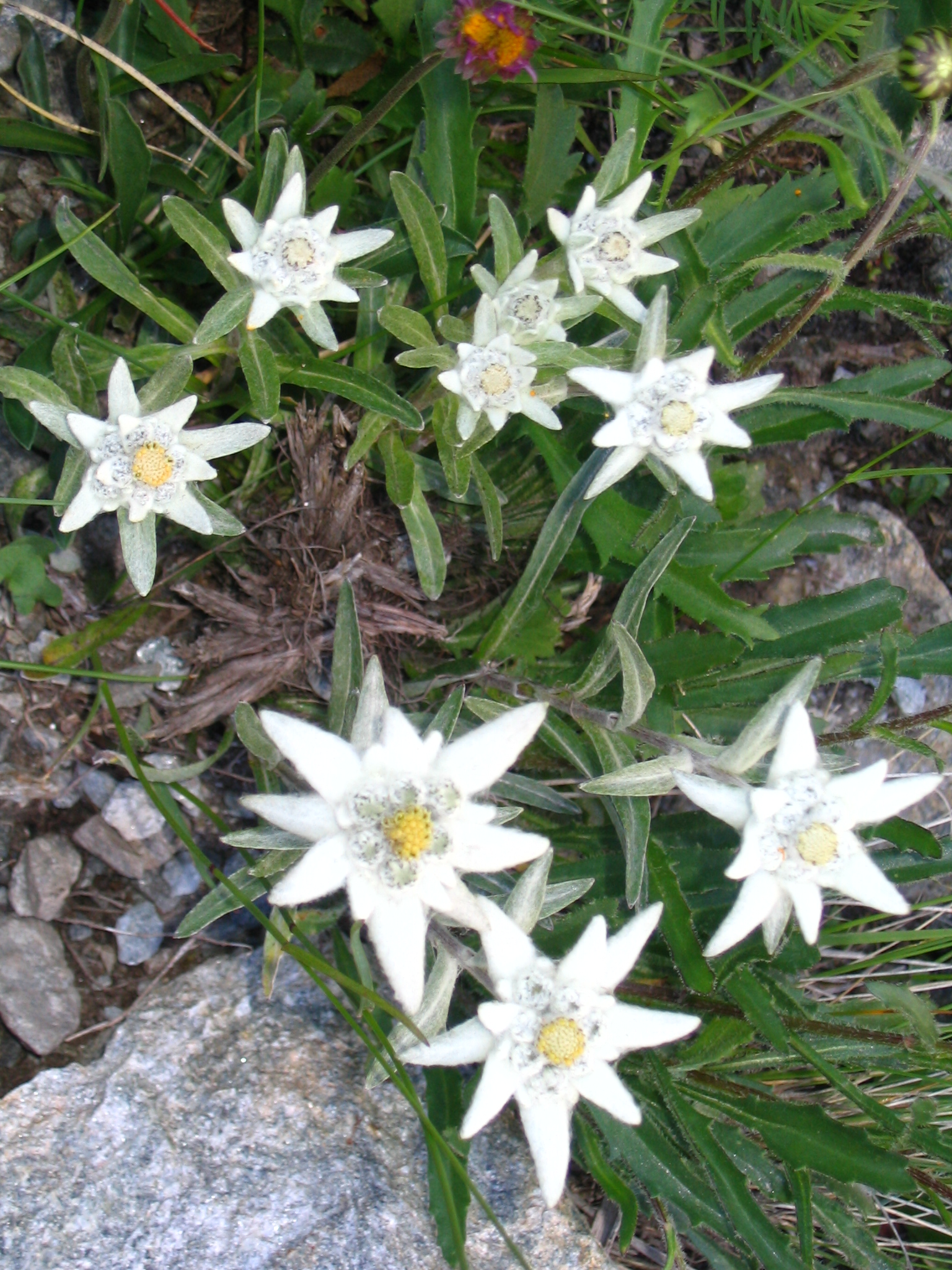 Edelweiss, photographed above Herbriggen, St. Niklaus, Vallais, Switzerland.